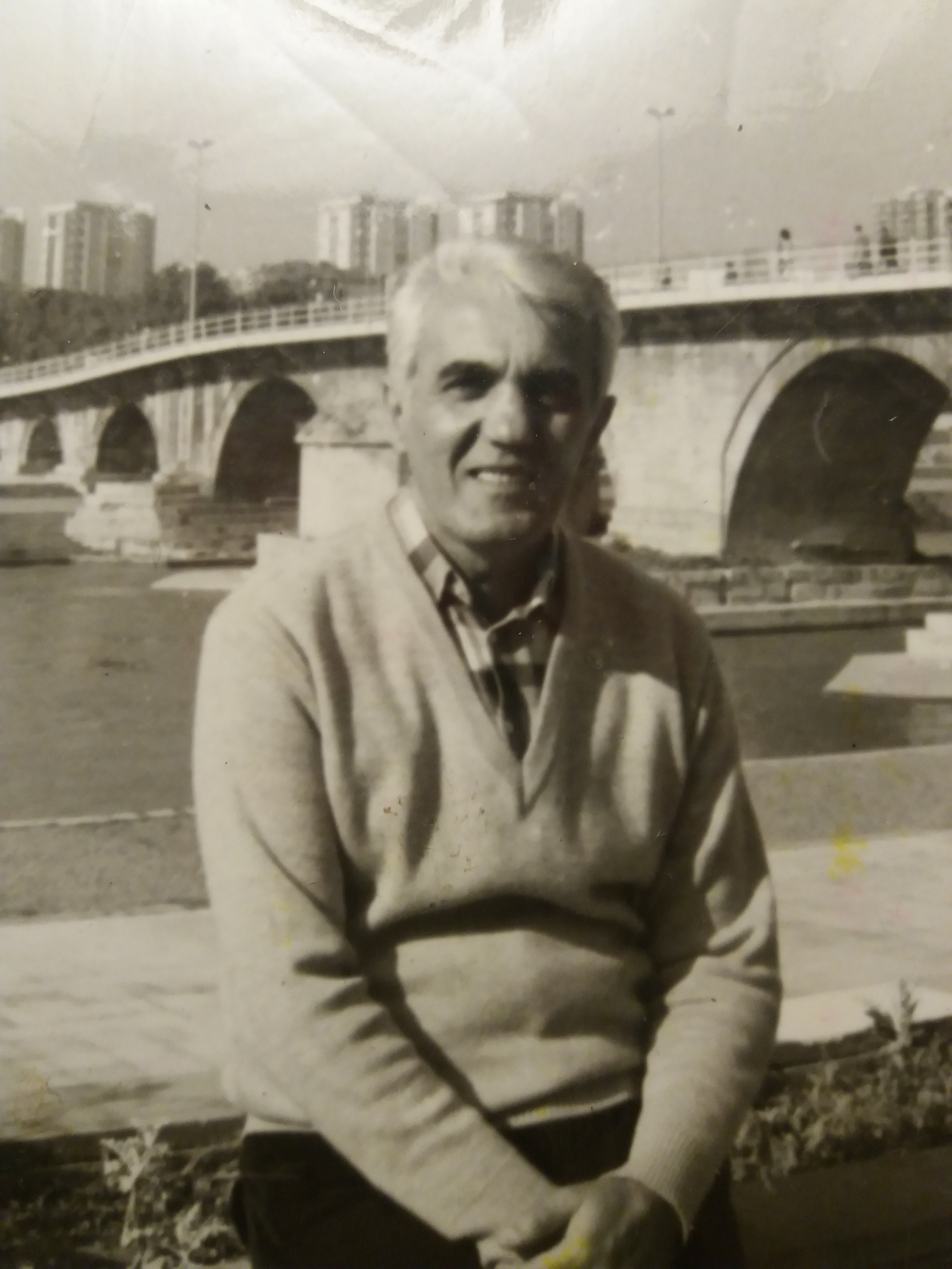 Petar Sobajic -Film producer